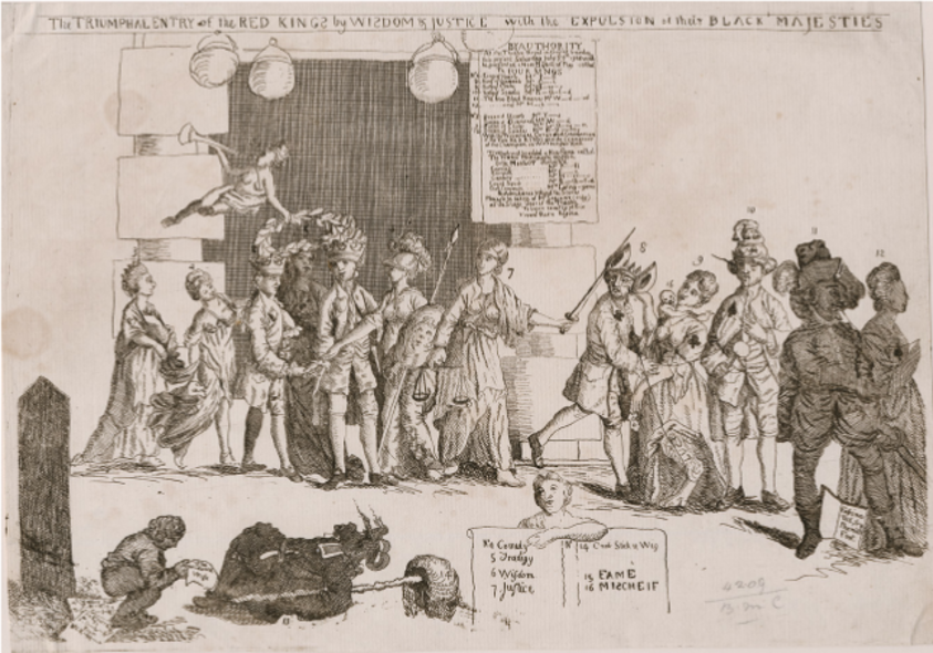 The Triumphal Entry of the Red Kings by Wisdom and Justice with the Expulsion of their Black Majesties (1768). (Courtesy of Lewis Walpole Library, Yale University).